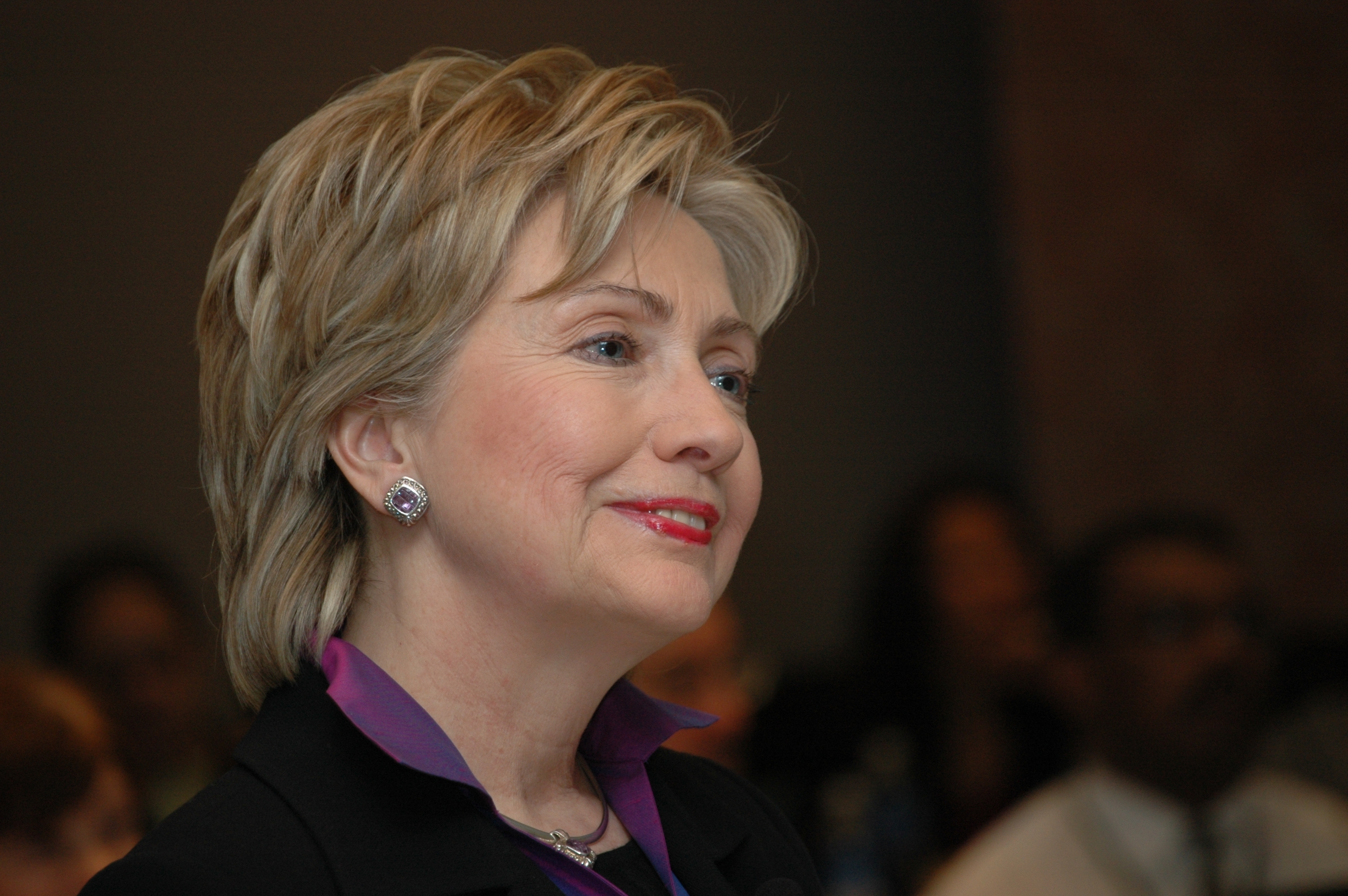 On Jan. 26-27, 2007 at Gallaudet University in Washington DC, SEIU local union leaders individually questioned eight Democratic presidential hopefuls—Sen. Hillary Clinton (D-NY), Sen. Barack Obama (D-IL), Sen. Joe Biden (D-DE), Rep. Dennis Kucinich (D-OH), former Sen. John Edwards (D-NC), Sen. Chris Dodd (D-CT), Gov. Bill Richardson (D-NM), and former Gov. Tom Vilsack (D-IA) —about where they stand on the issues that matter most to SEIU members: affordable health care, good jobs, and retirement security.